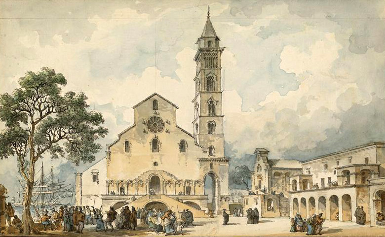 Water colour painting of Trani Cathedral